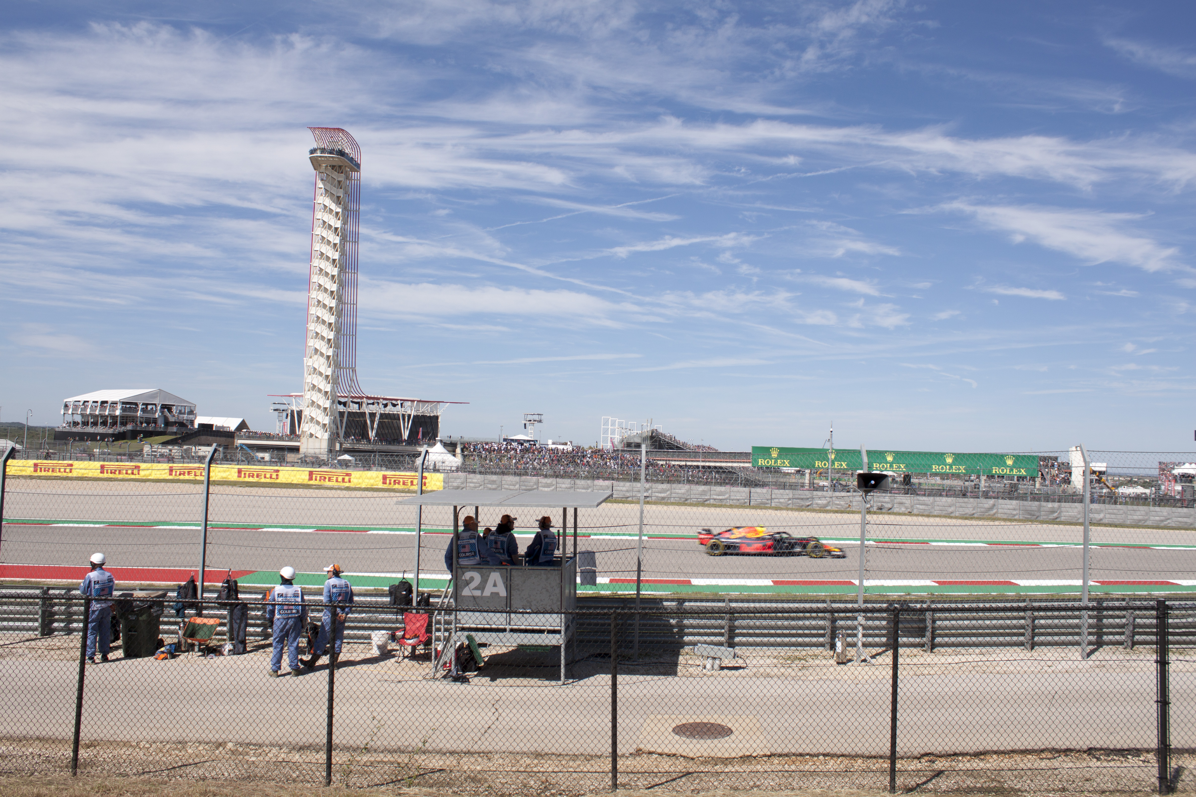 Max Verstappen at the 2018 US Grand Prix at the Circuit of the Americas